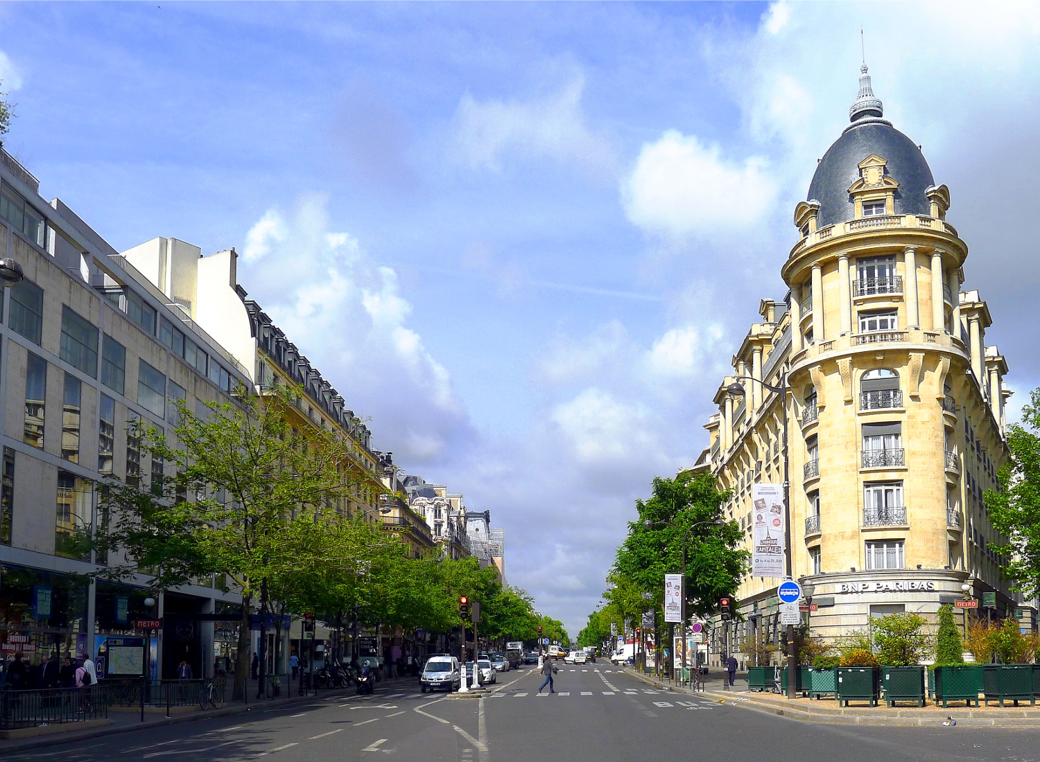 Italiens boulevard - Paris